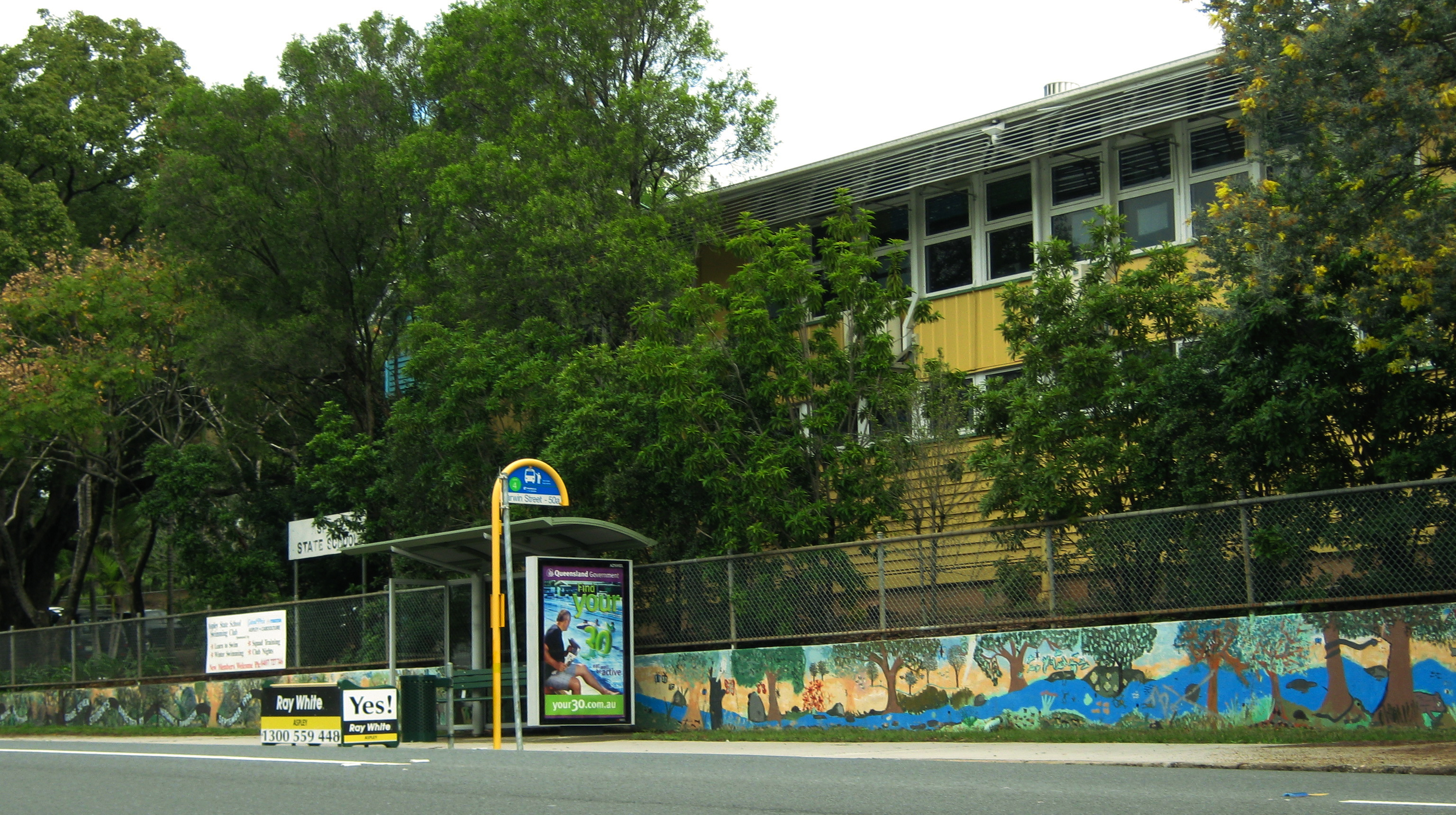 Aspley State School, Queensland, Australia